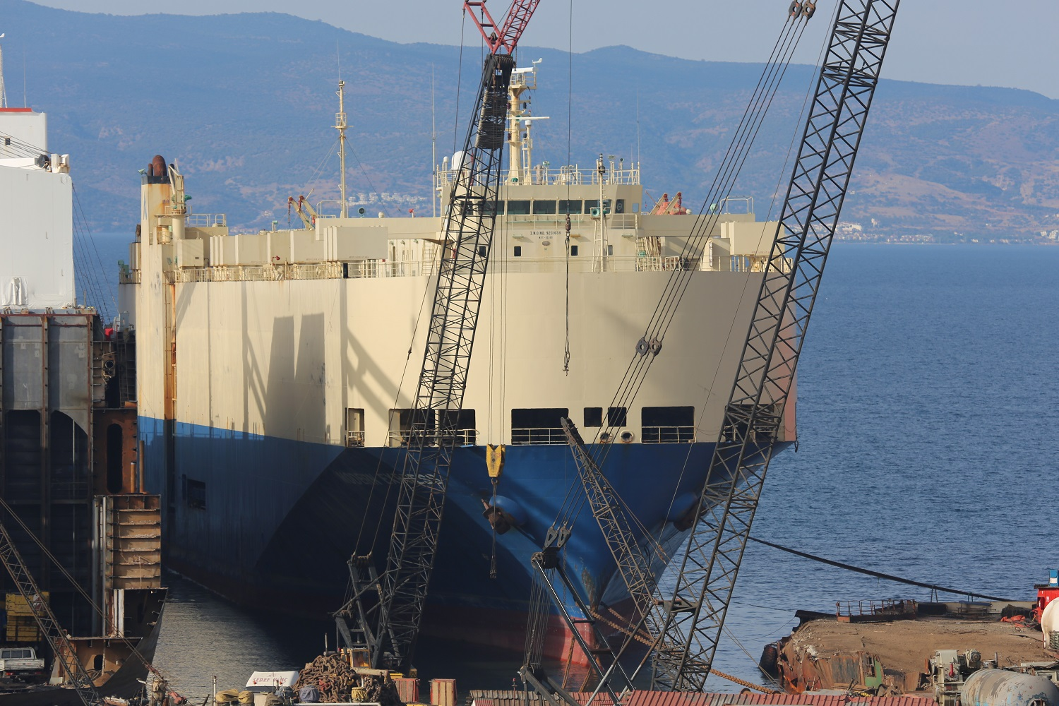 The Modern Express during its scrapping at Aliağa on October 16, 2016.